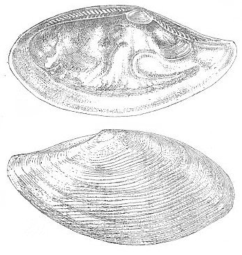 Yoldia lanceolata from British Pleistocene Crag deposits